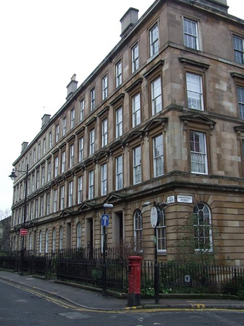 Hill Street. With Garnethill Street to the right. See the pillar box here 1179338.